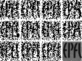 The binary images of EPFL, and a continuous tone image